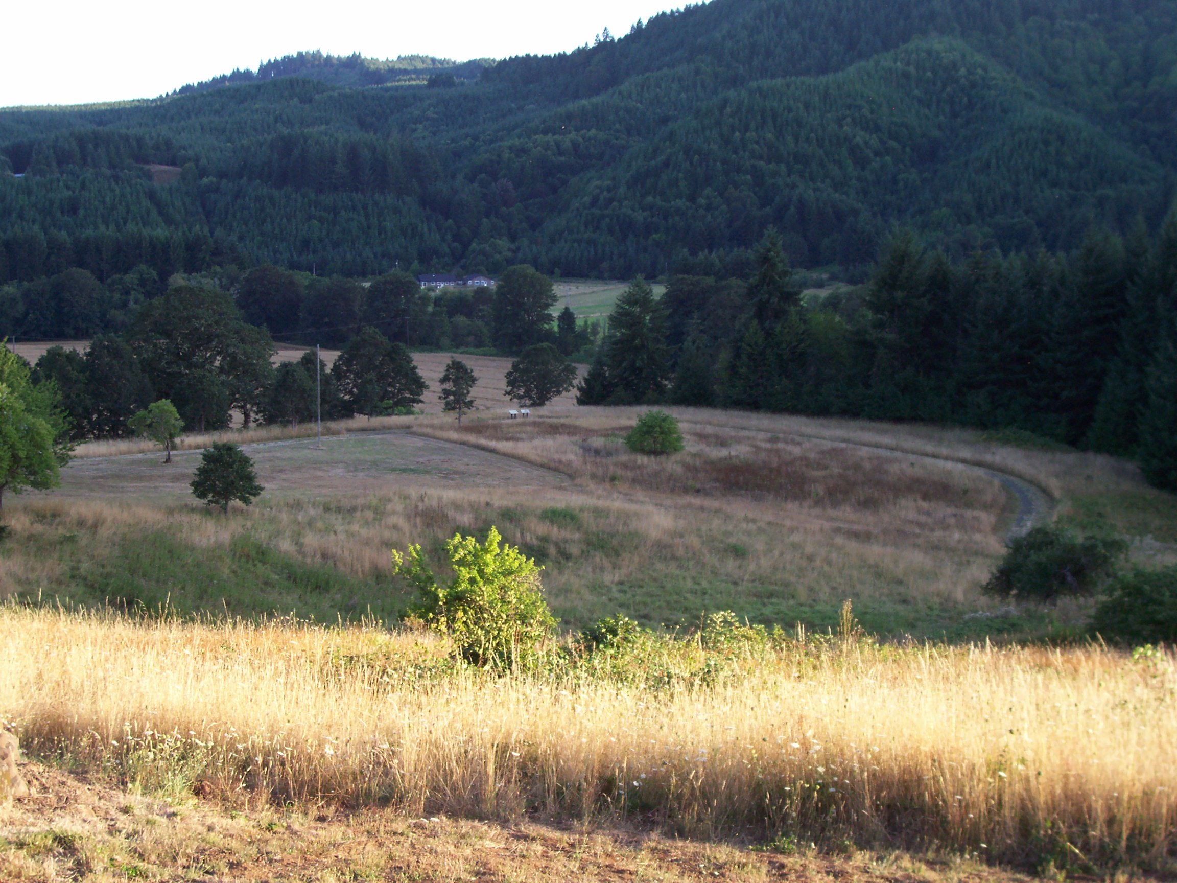 Fort Hoskins Ground in Kings Valley. Listed on the National Registor of Hostoric Places. Also look for the Photos: Fort Hoskins Parking Lot and Shed; Information Plaque at Fort Hoskins; Plaque at Fork Hoskins; Zoomed in Plaque at Fort Hoskins; Fort Hoskins Sight. All on the History of Corvallis Oregon.